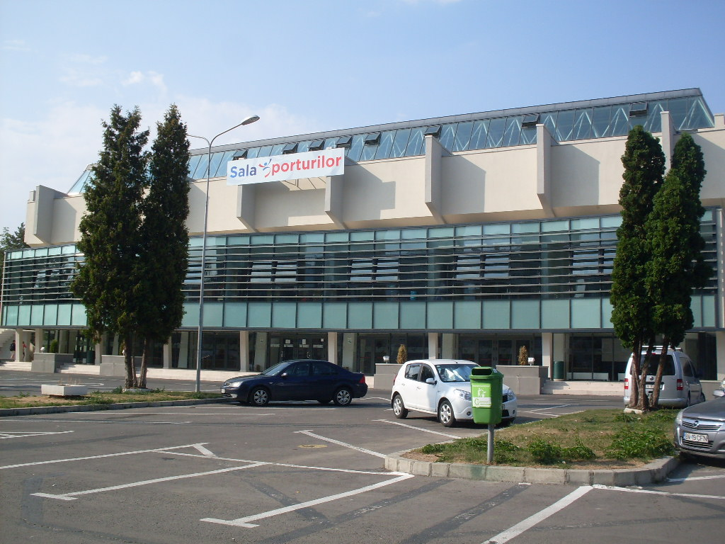 Sala Sporturilor, Braşov, Romania.